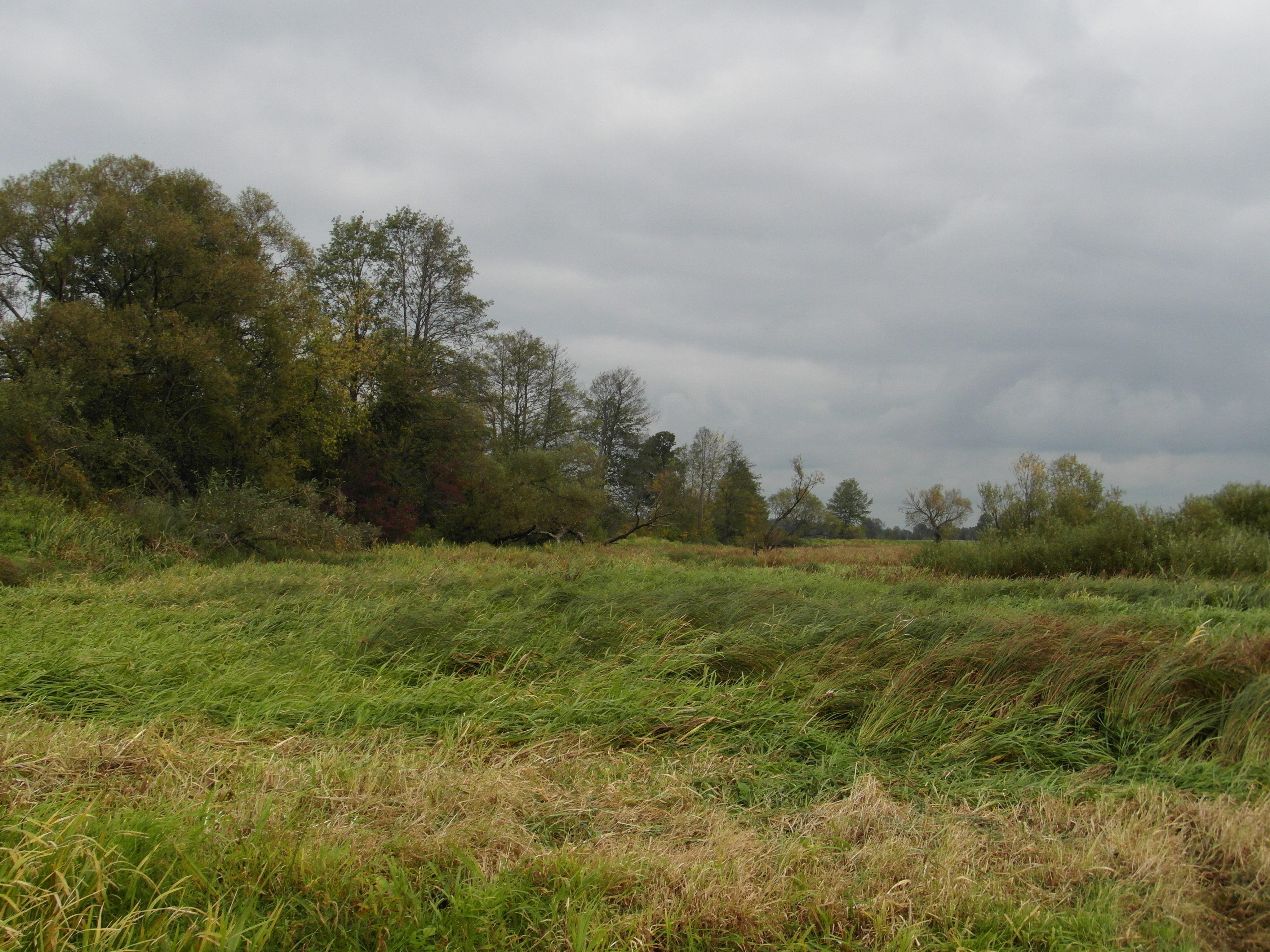 Gulczewo, riparian zone